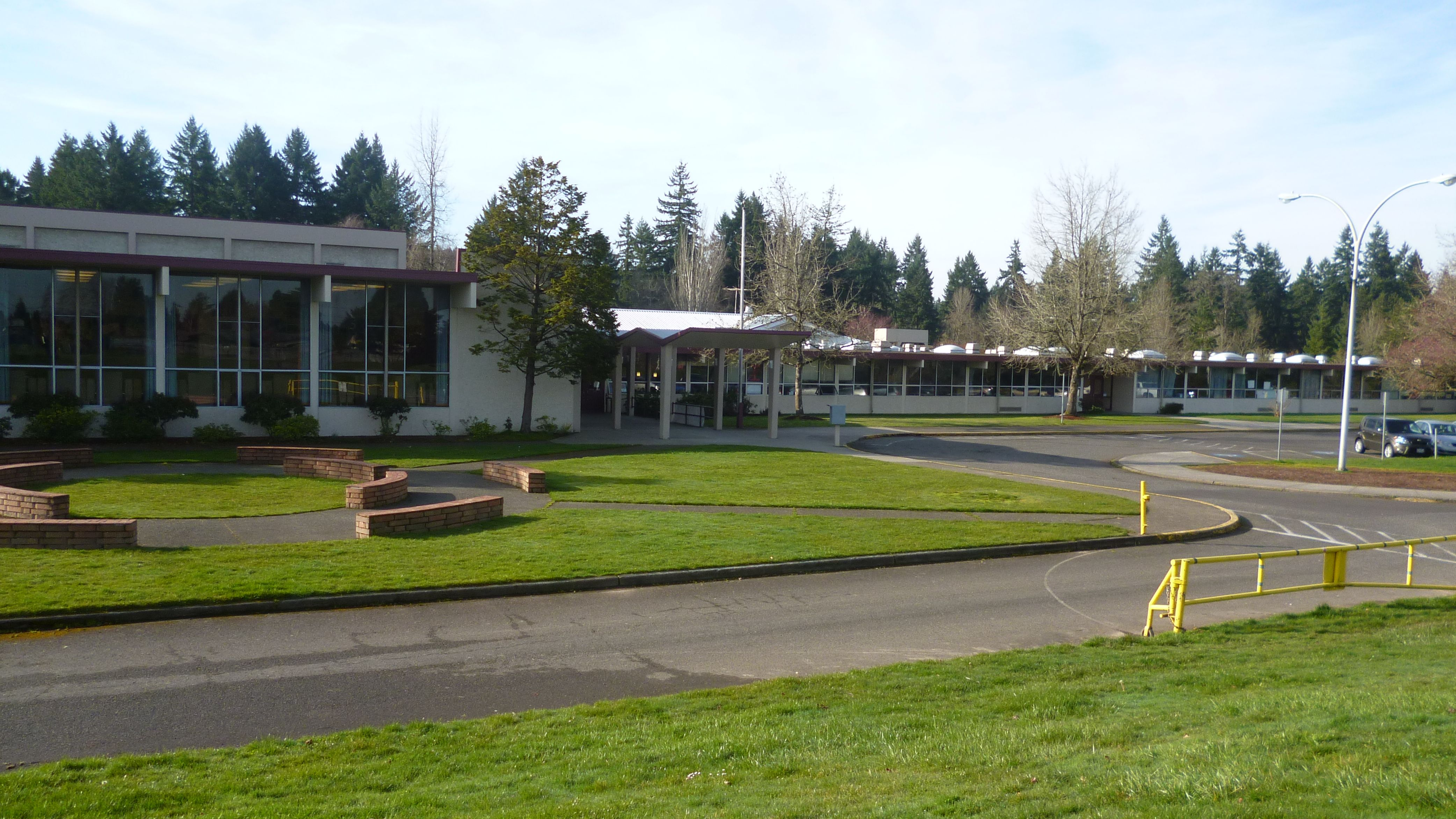 Outside wide